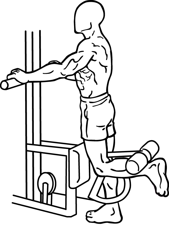 an exercise of thigh